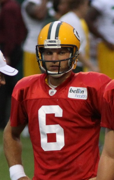 Green Bay Packers back-up Quarterback Graham Harrell at pre-season training camp, August 1, 2011, Green Bay, WI